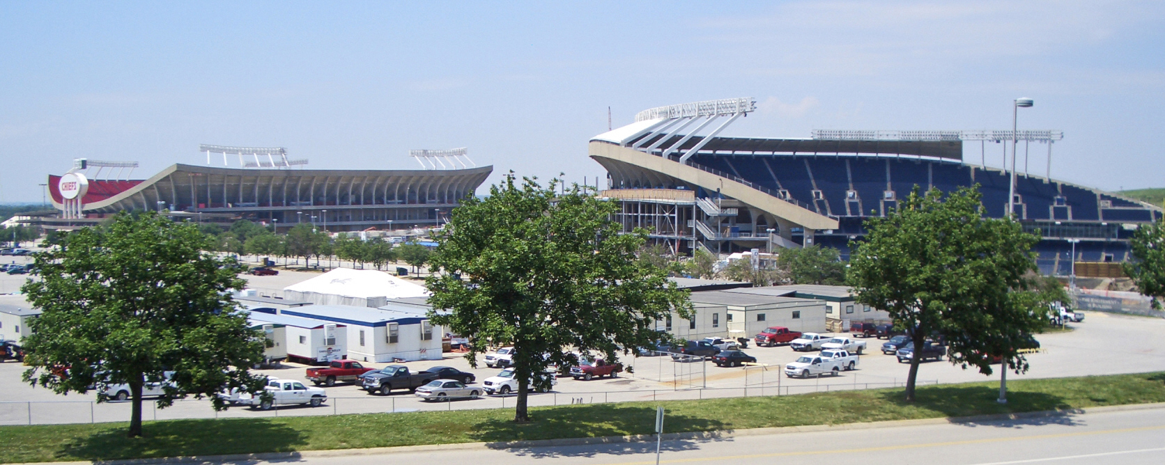 Harry S. Truman Sports Complex, Kansas City, Missouri